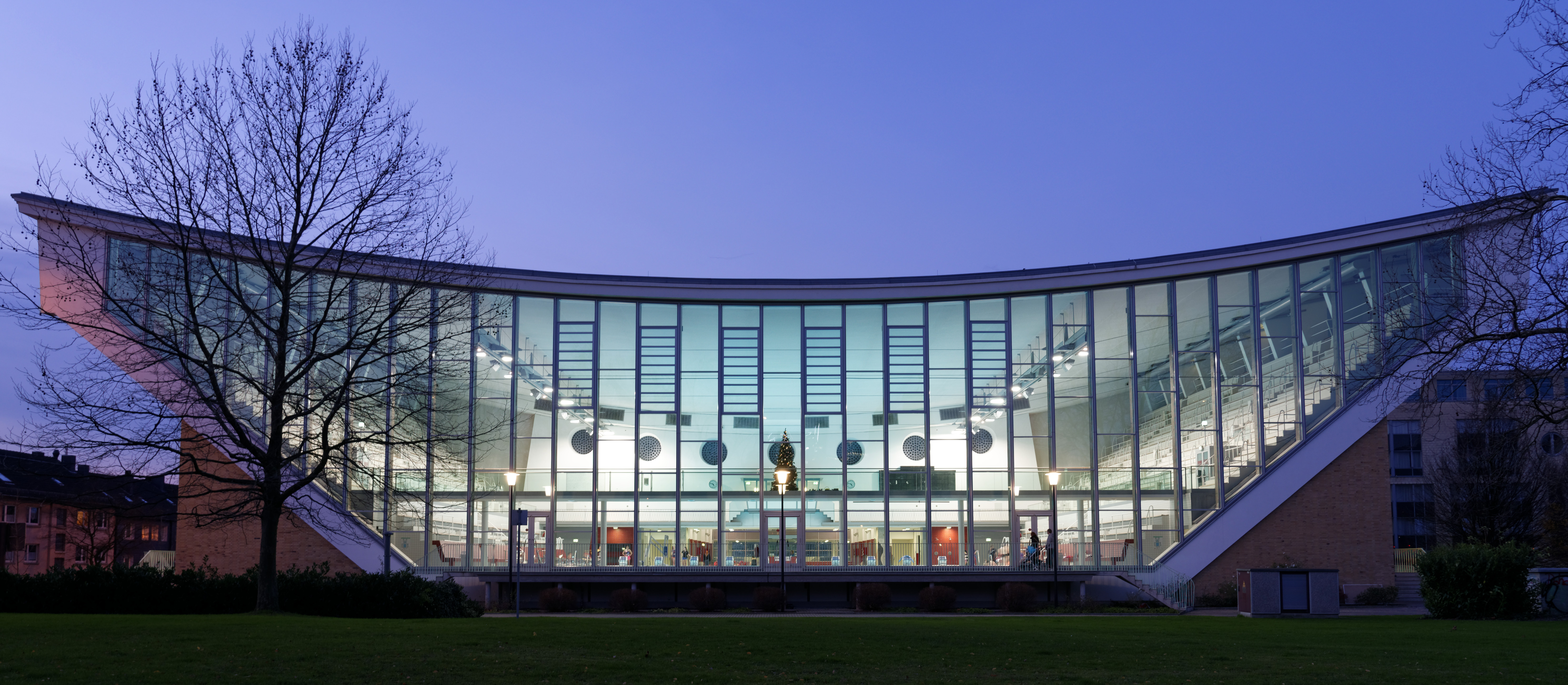 Schwimmoper (Natatorium) in Wuppertal, Germany.